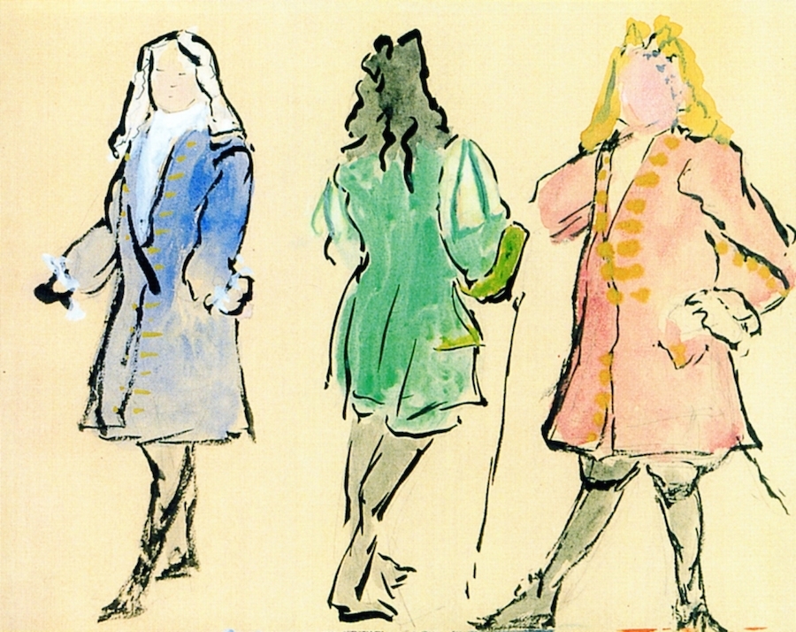 painting by Marianne von Werefkin